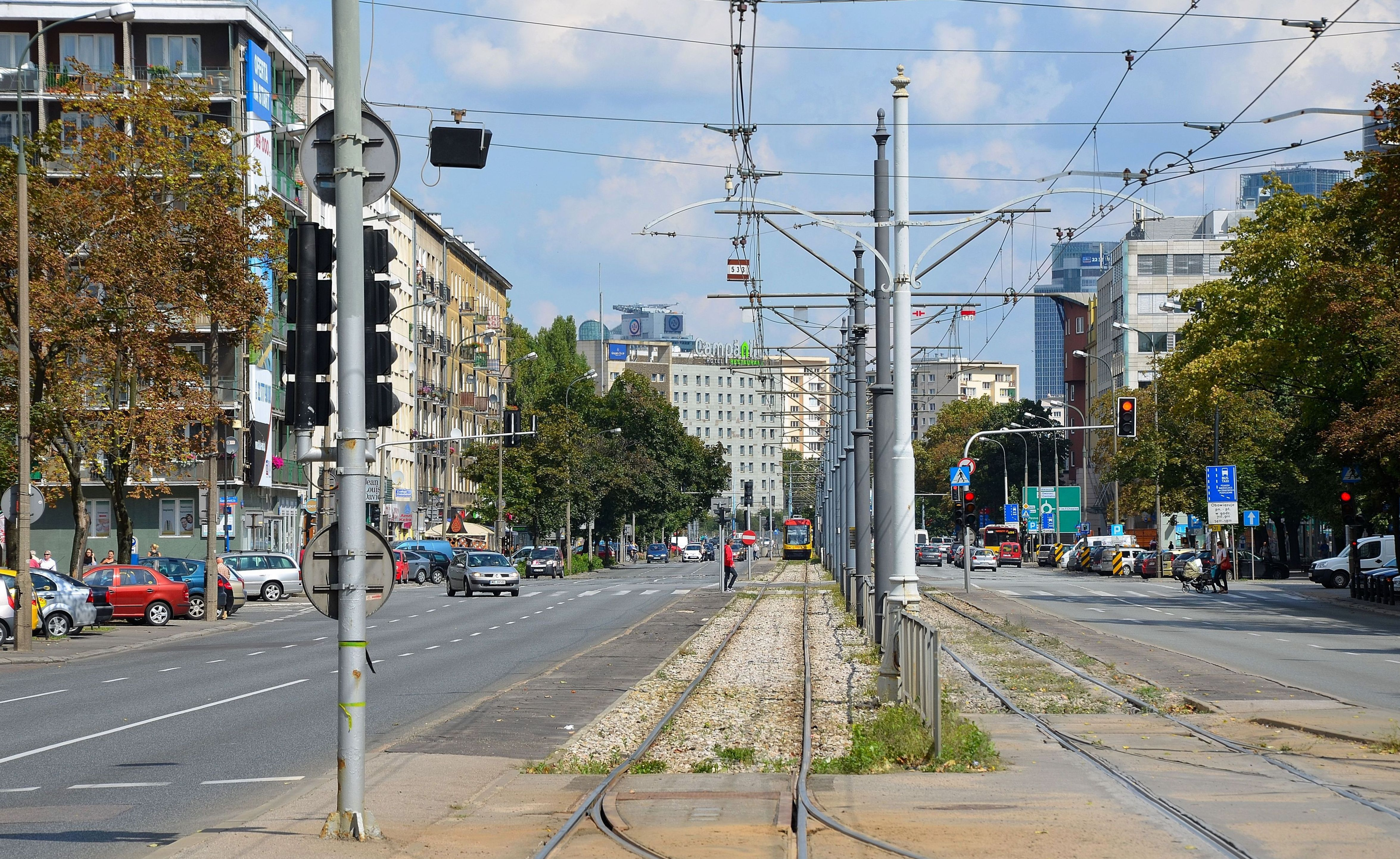 Grójecka Street in Warsaw